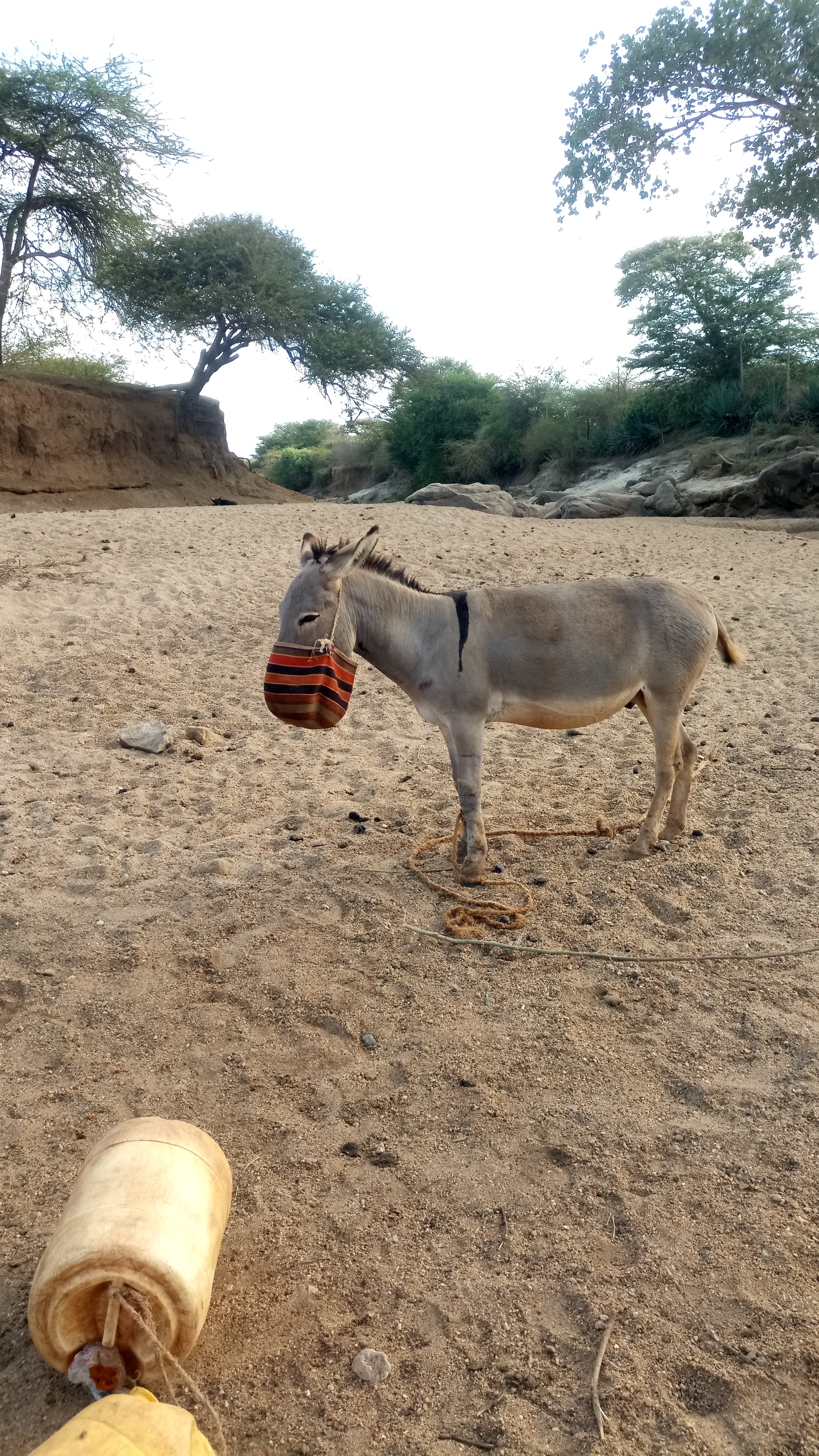 Kenya, Kitui County. On a dry river bed, the donkey awaits to carry water jerricans. This is an image with the theme "Play" from: Kenya